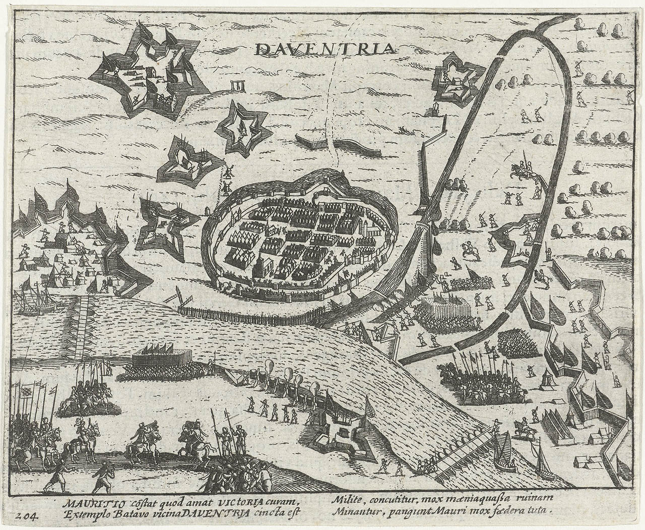 Siege and capture of Deventer, 1591.